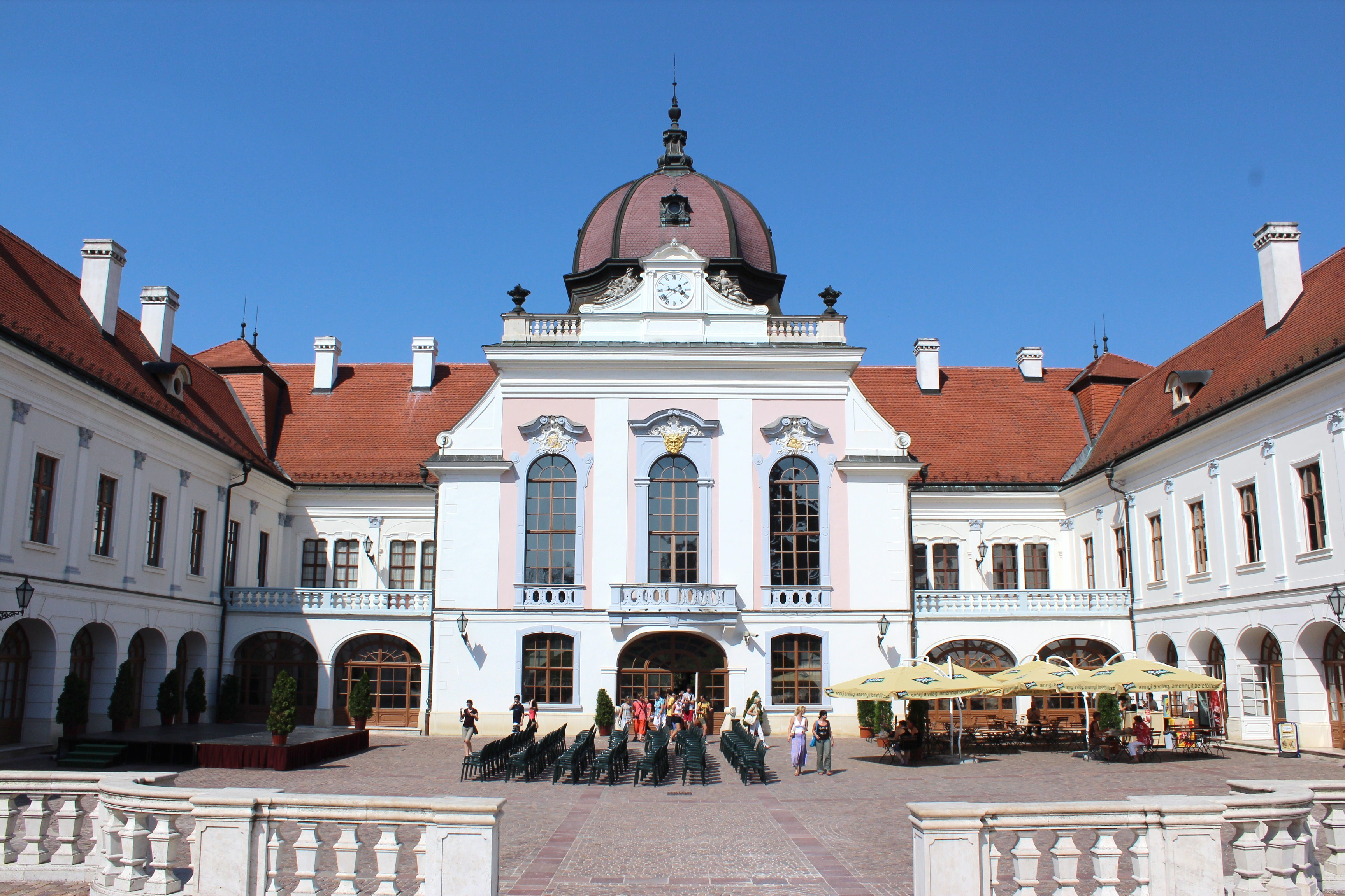 Royal Palace of Gödöllő